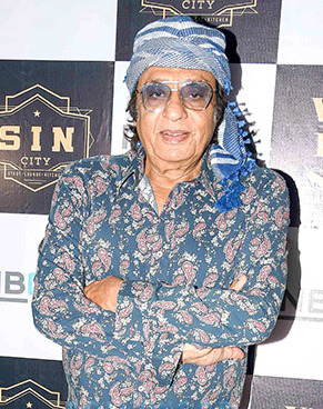 Celebs grace Vindu Dara Singh’s birthday bash